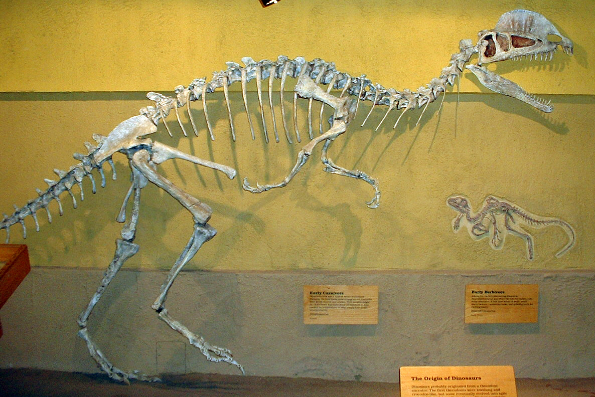 Skeleton of Dilophosaurus from the Royal Tyrrell Museum of Paleontology of Drumheller, Alberta, Canada.